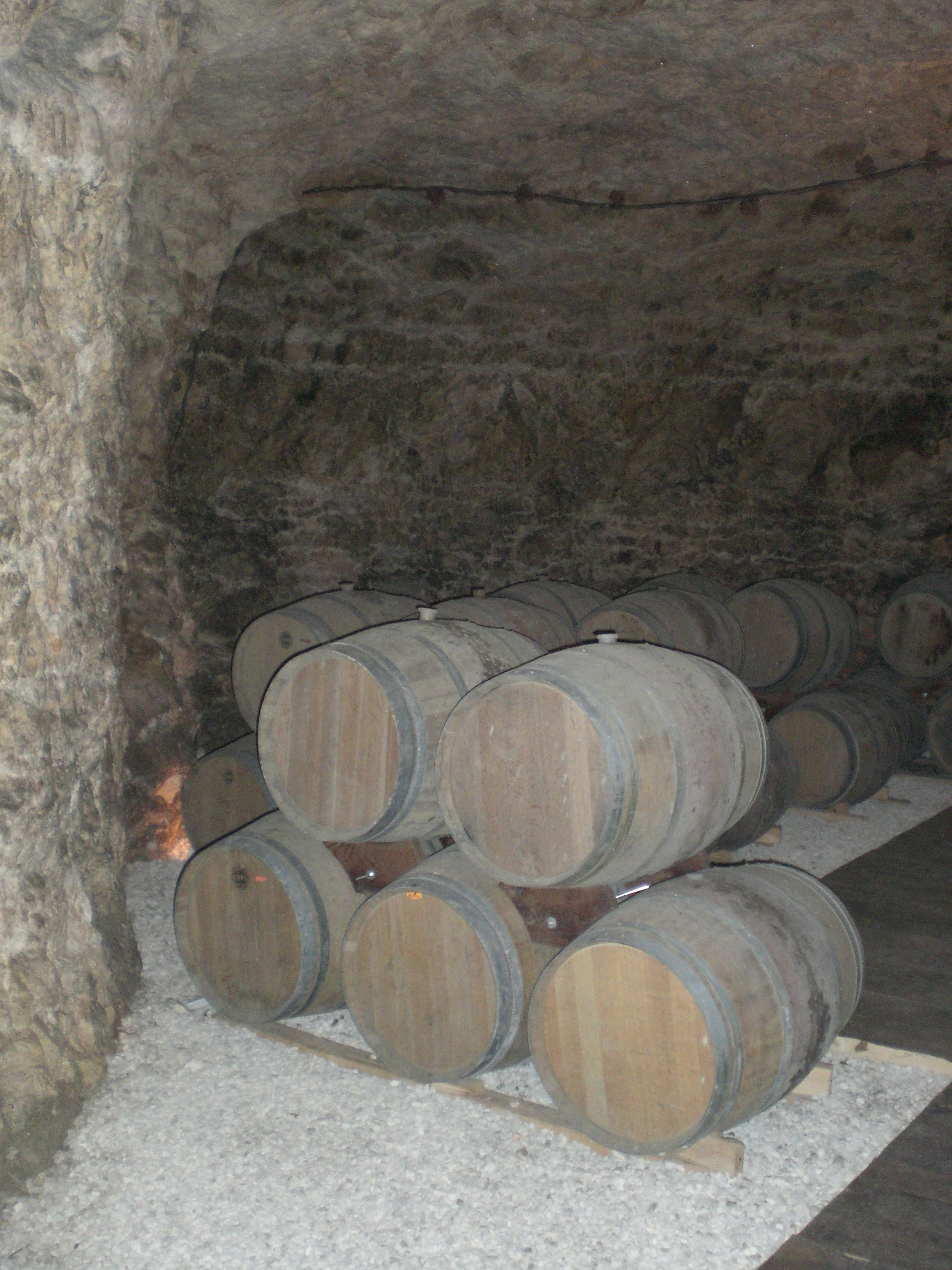 Wine museum (wine barrels)